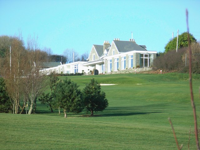 The club house Langland Bay golf course.